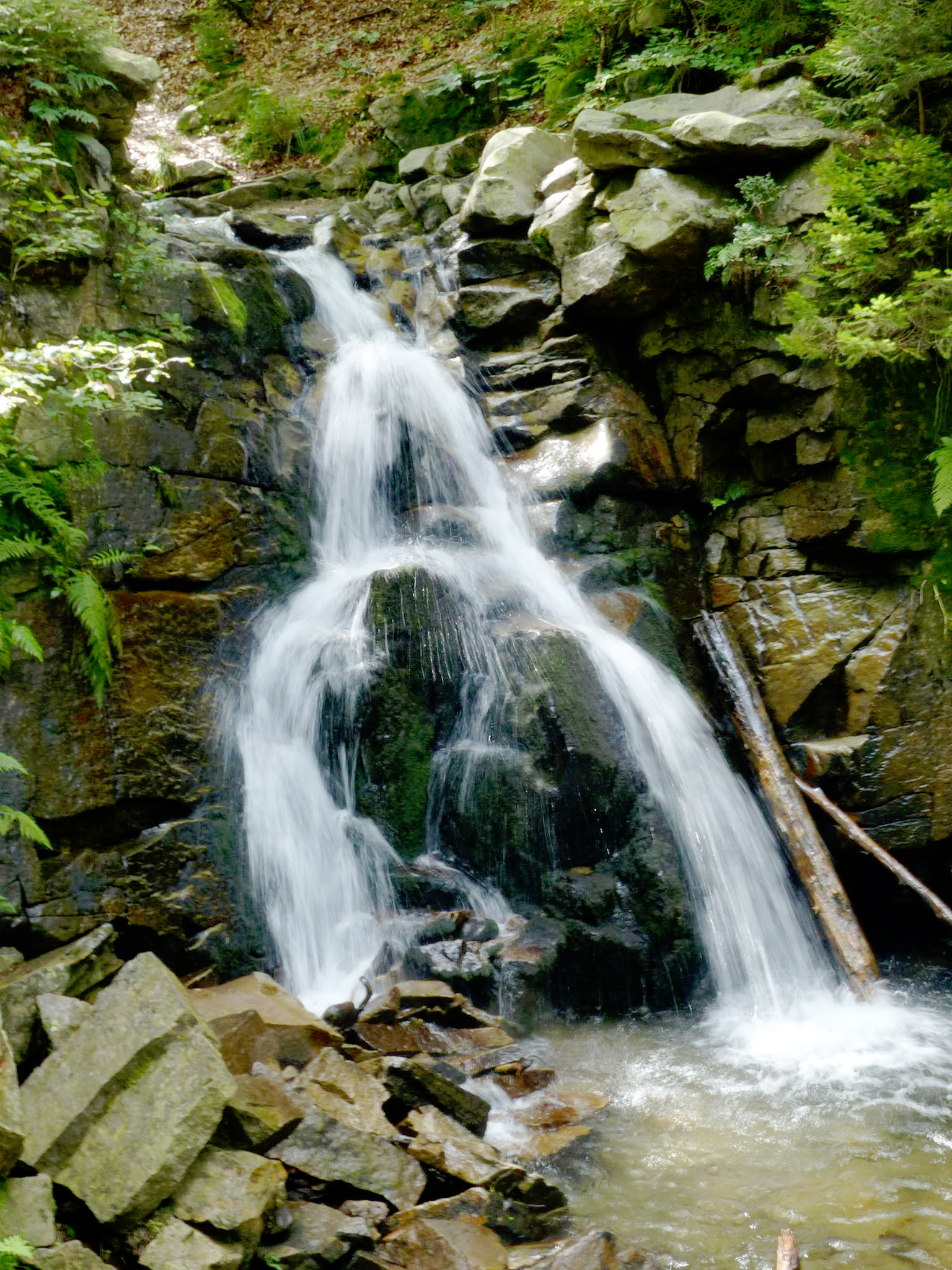 Rodlo Cascades - a symbolic beginning of the White Vistula brook - one of three brooks that make the Vistula river (Black and White Vistula, and Malinka). The real source of White Vistula is located on 1090m on the slope of Barania Góra mountain.